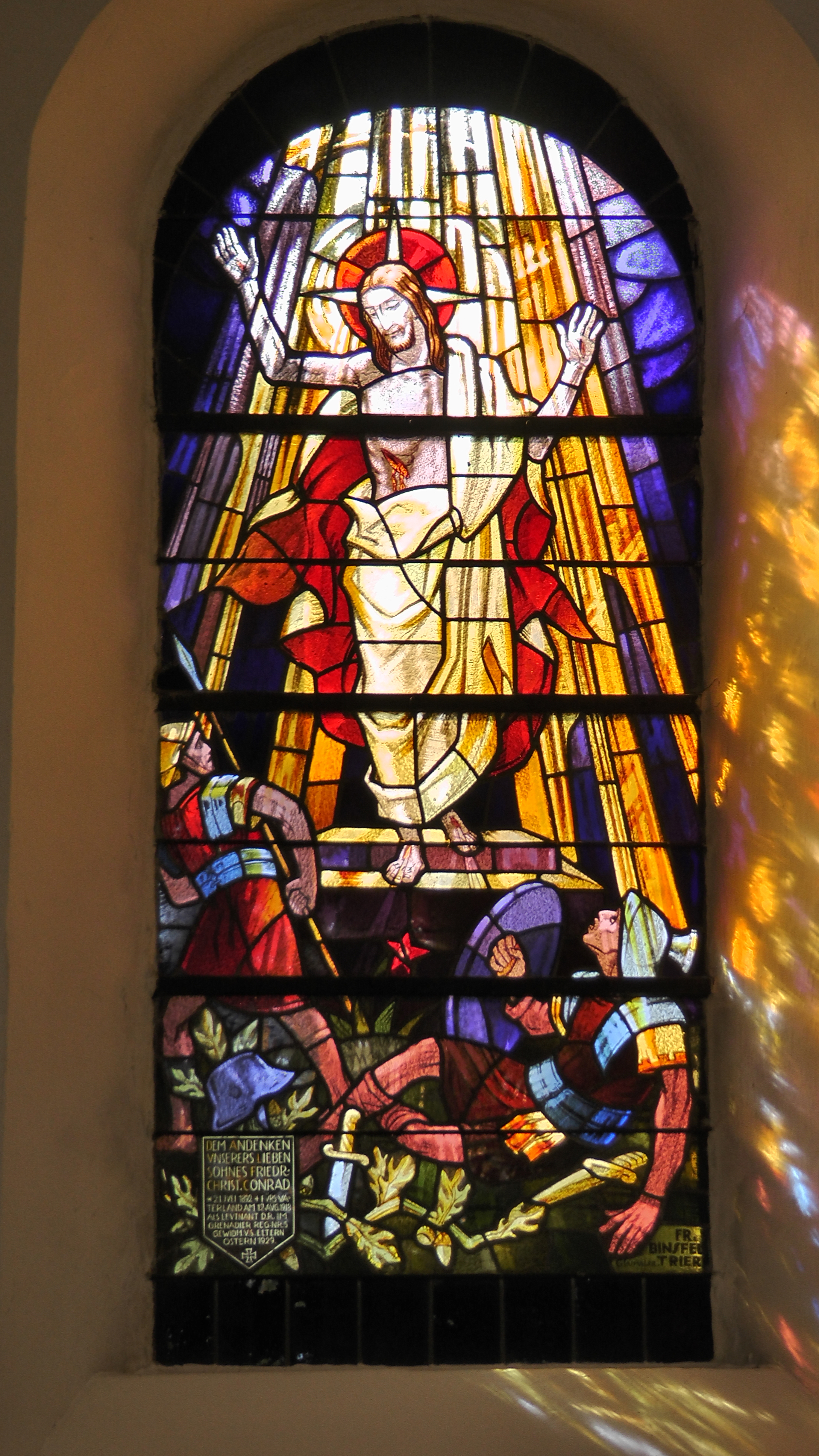 Protestant Church Kleinich (Mosel) Rhineland-Palatinate, Germany, stained glass